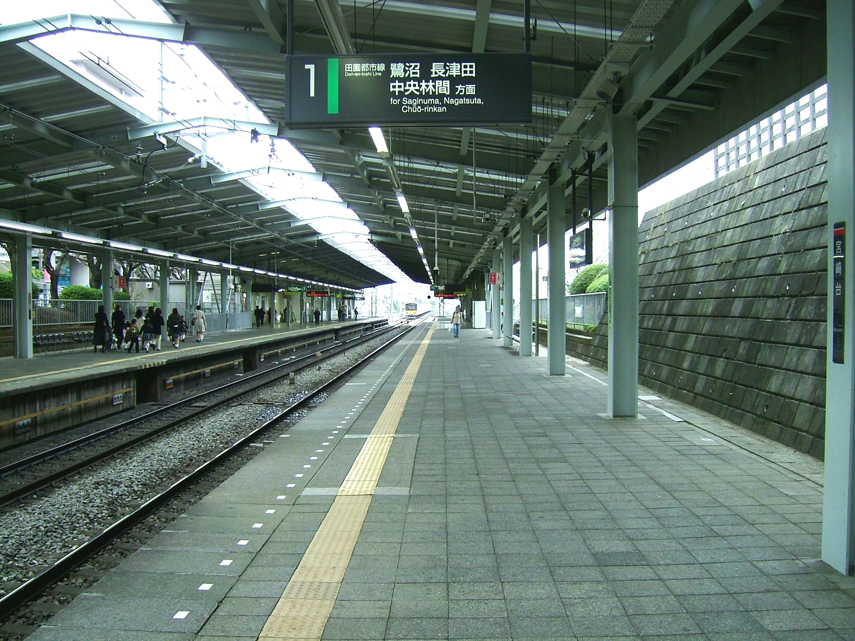 Miyazakidai Station platform (Tōkyū Den-en-toshi Line)